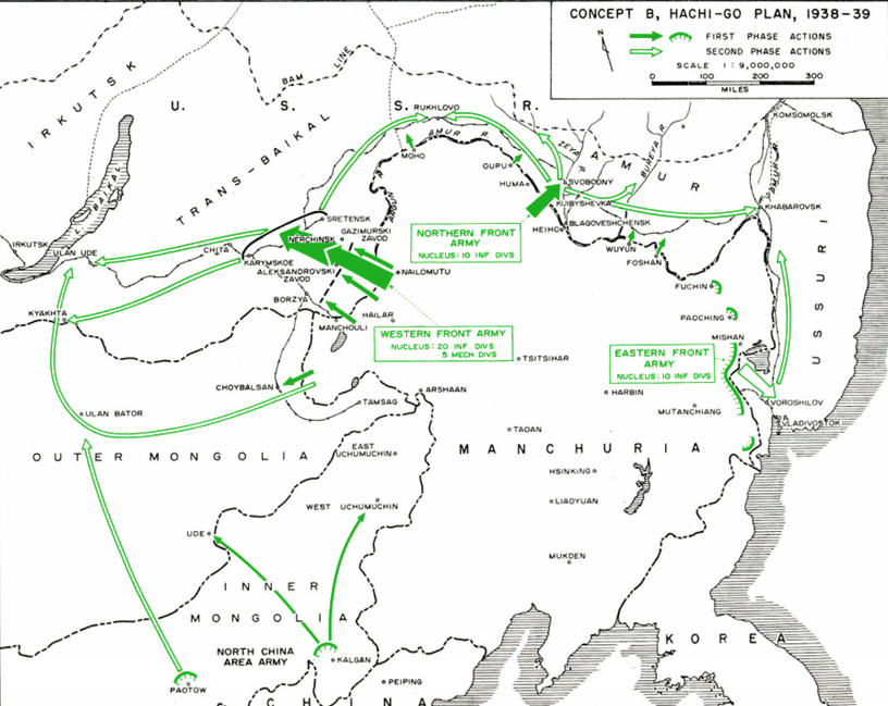 Outline of Concept B of the Hachi-Go Plan, a 1938-39 Japanese contingency for an invasion of the Soviet Union in 1943.